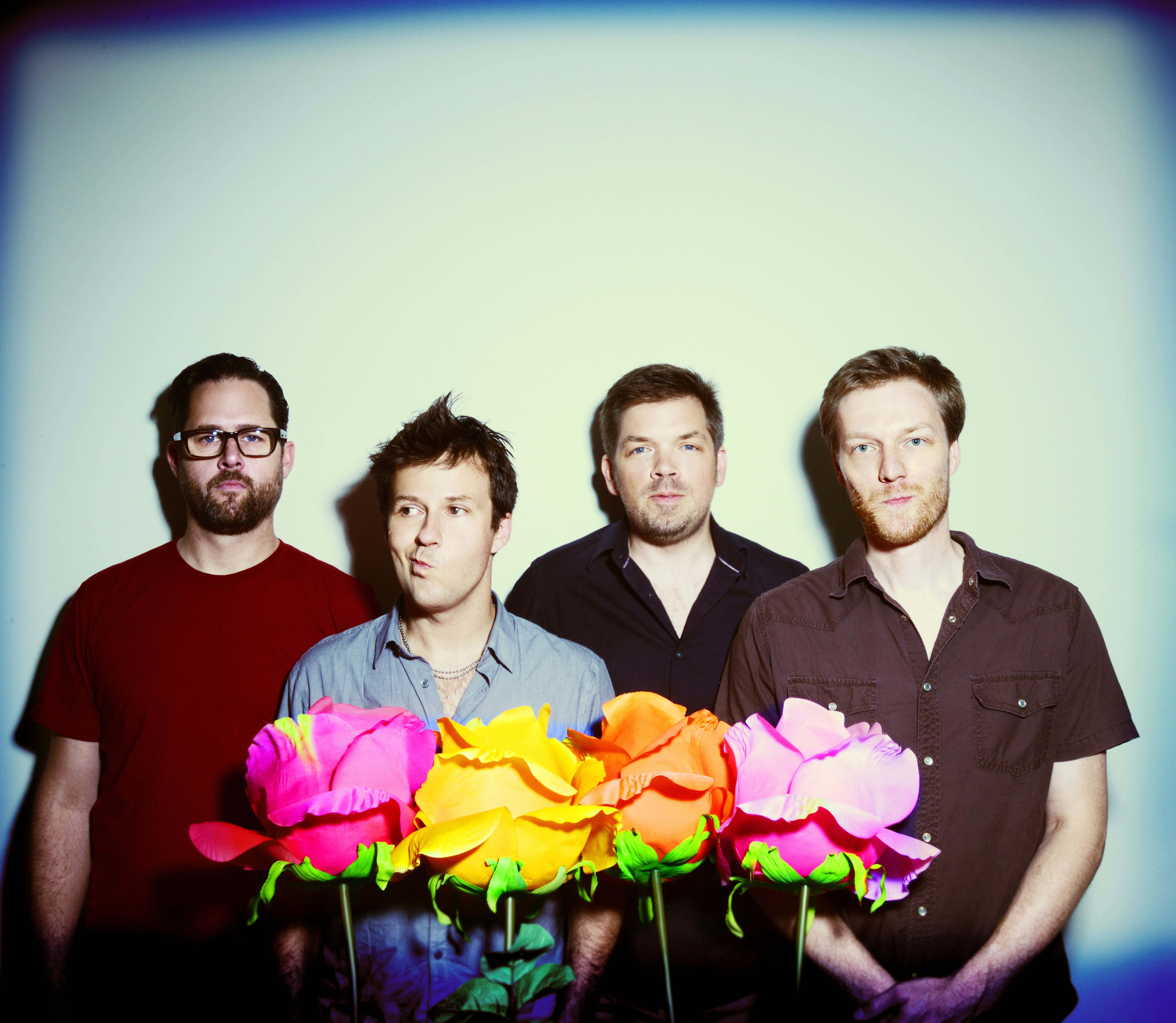 The Dismemberment Plan's press photo, 2013